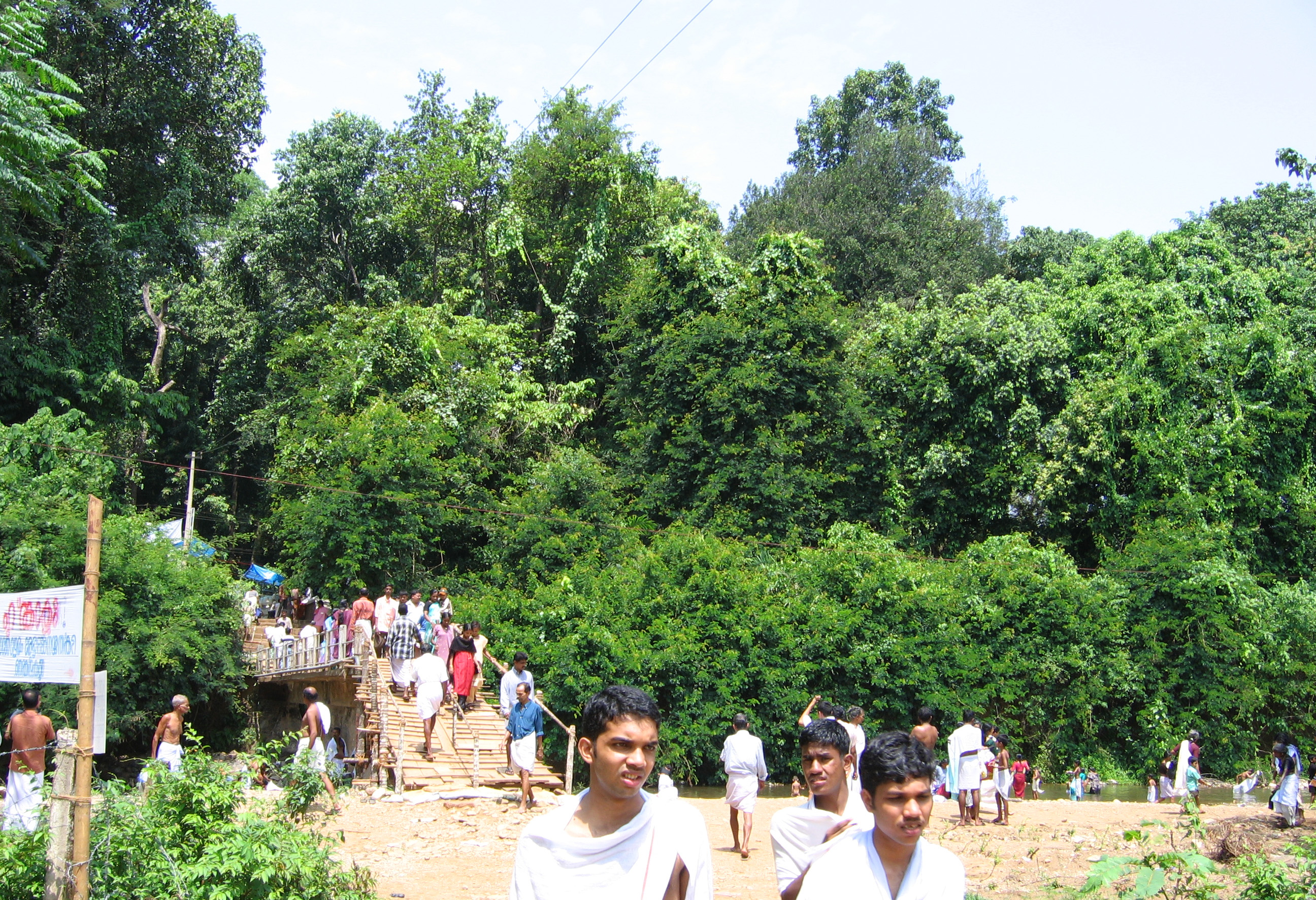 During the festival season May-June every year devotees throng to Akkare-Kottiyoor temple, which is closed for the other eleven months.